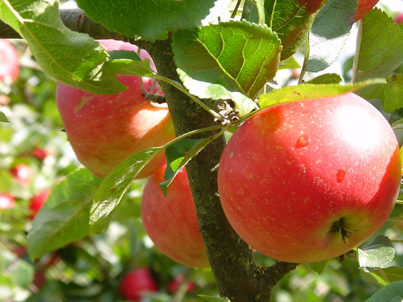 Ecological apples from Ritt Bjerregaards Orchard